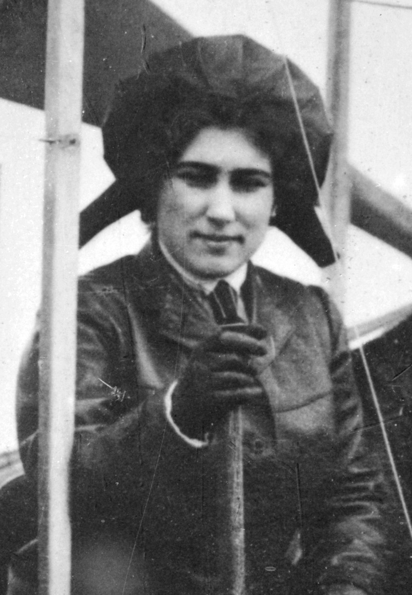 Bain News Service,, publisher. Russian Princess Eugenia Mikhailovna Shakhovskaya and aviator Abramowitsch. April 24th, 1913, before the accident happenend. Peter Supf: Das Buch der deutschen Fluggeschichte. Band 2: Vorkriegszeit, Kriegszeit, Nachkriegszeit. Klemm, Berlin 1935, p. 197f. 1 negative : glass ; 5 x 7 in. or smaller. Notes: Title from unverified data provided by the Bain News Service on the negatives or caption cards. Forms part of: George Grantham Bain Collection (Library of Congress). Format: Glass negatives. Repository: Library of Congress, Prints and Photographs Division, Washington, D.C. 20540 USA, General information about the Bain Collection is available at Persistent URL: Call Number: LC-B2- 2712-6